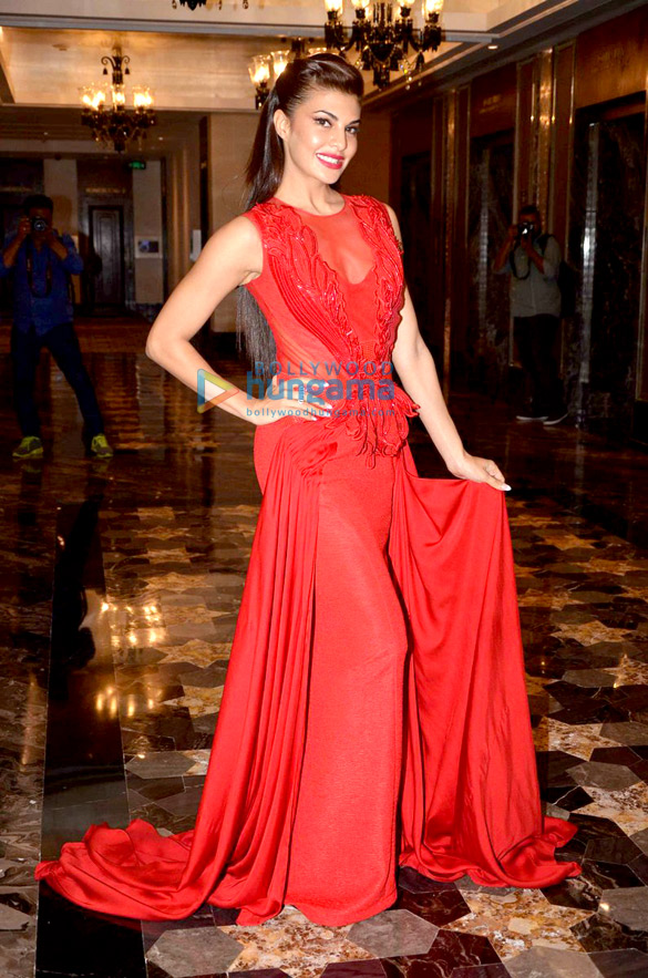 Jacqueline Fernandez at Loreal-Dessange event